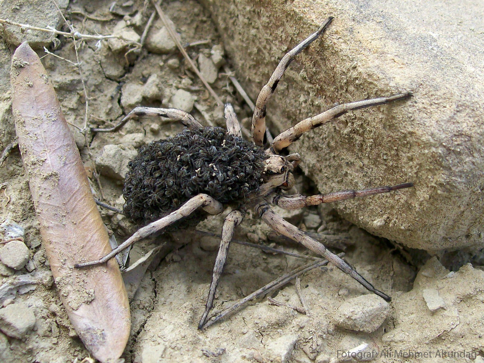 My own shots.